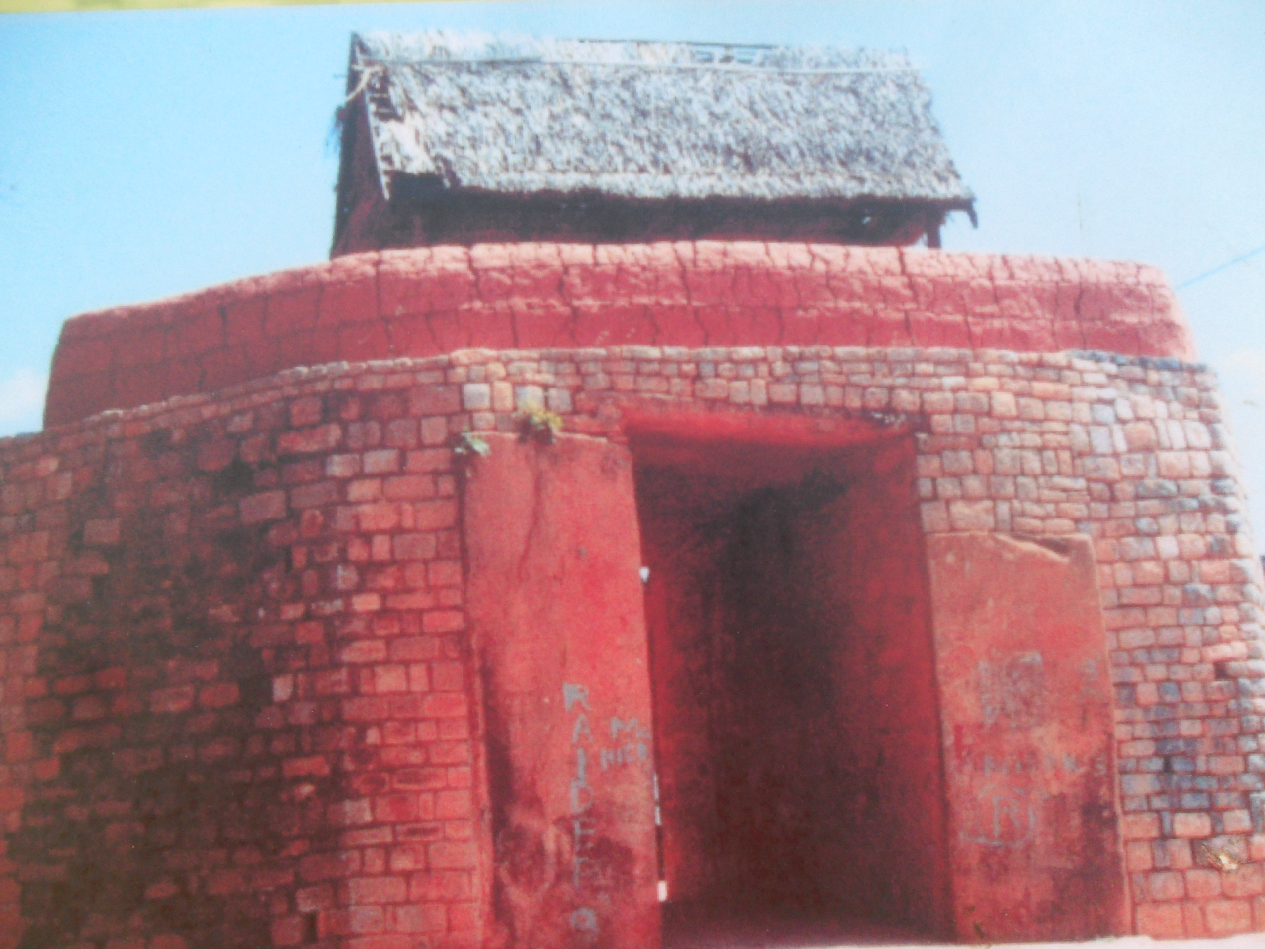 Le portail Nord de la colline sacrée d'Ambohimanga